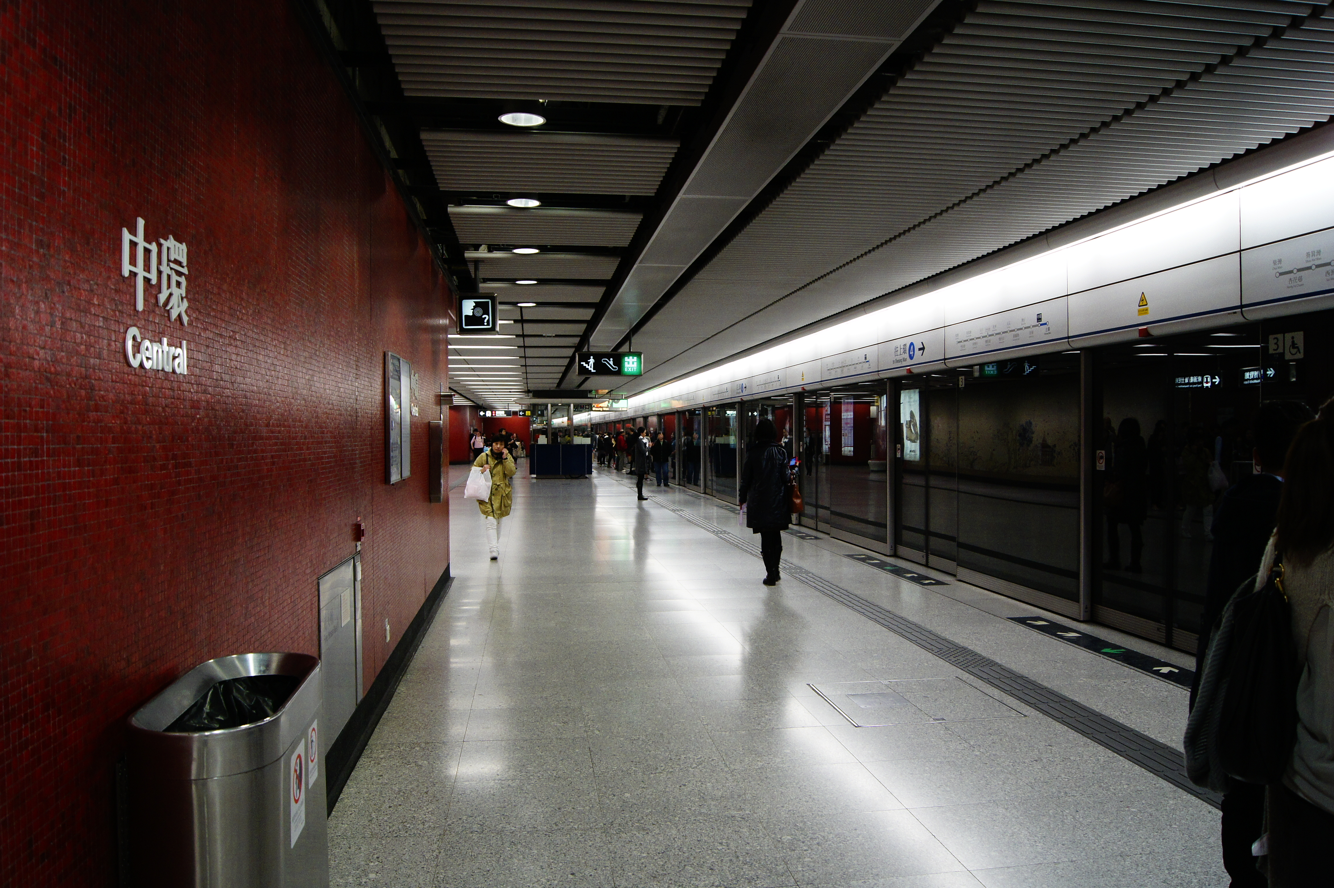 MTR Central station Platform 4 (Island line towards Sheung Wan)